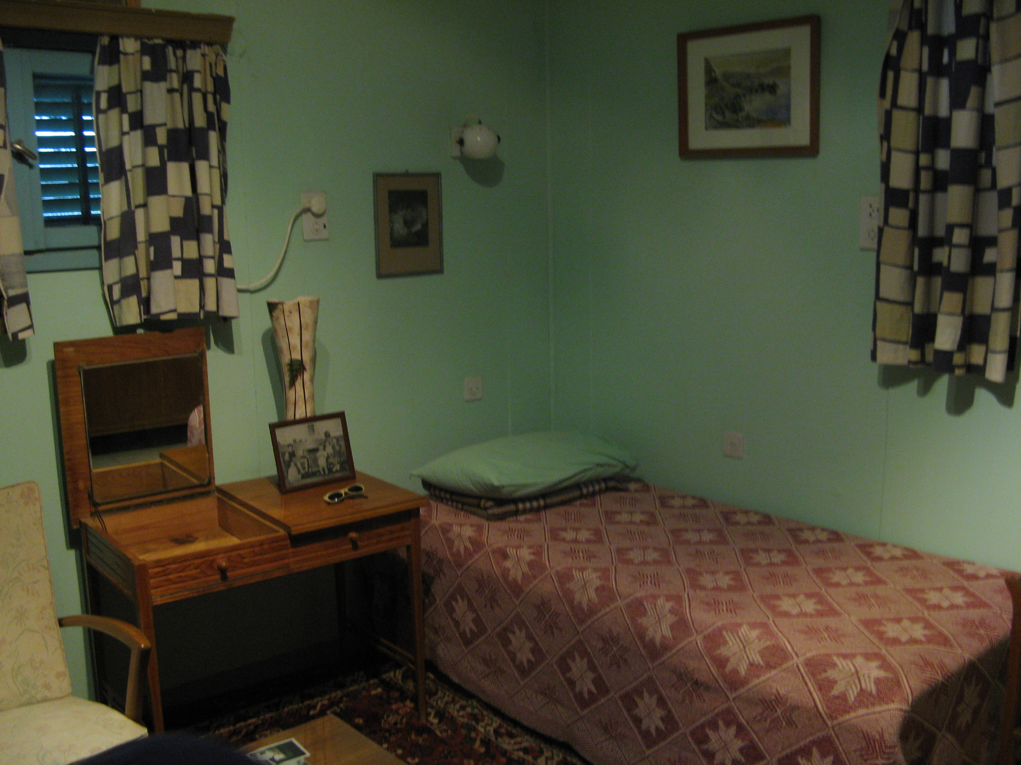 Pola's room in Ben Gurion Shack in Sdeh Boker